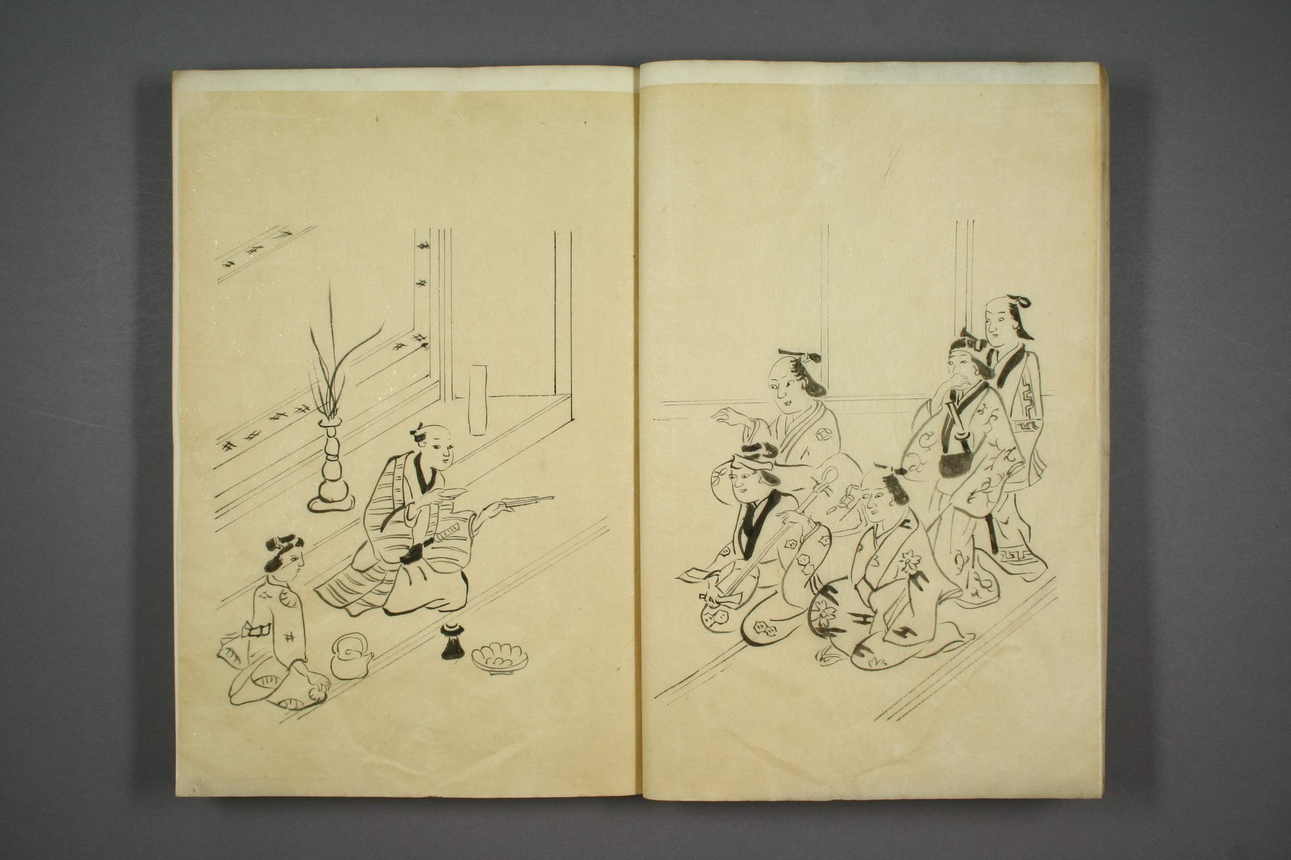 an earlier Rakugoka（Japanese storytellers） Shikano Buzaemon in hisown book"Shika-no-Makifude"（17th century）